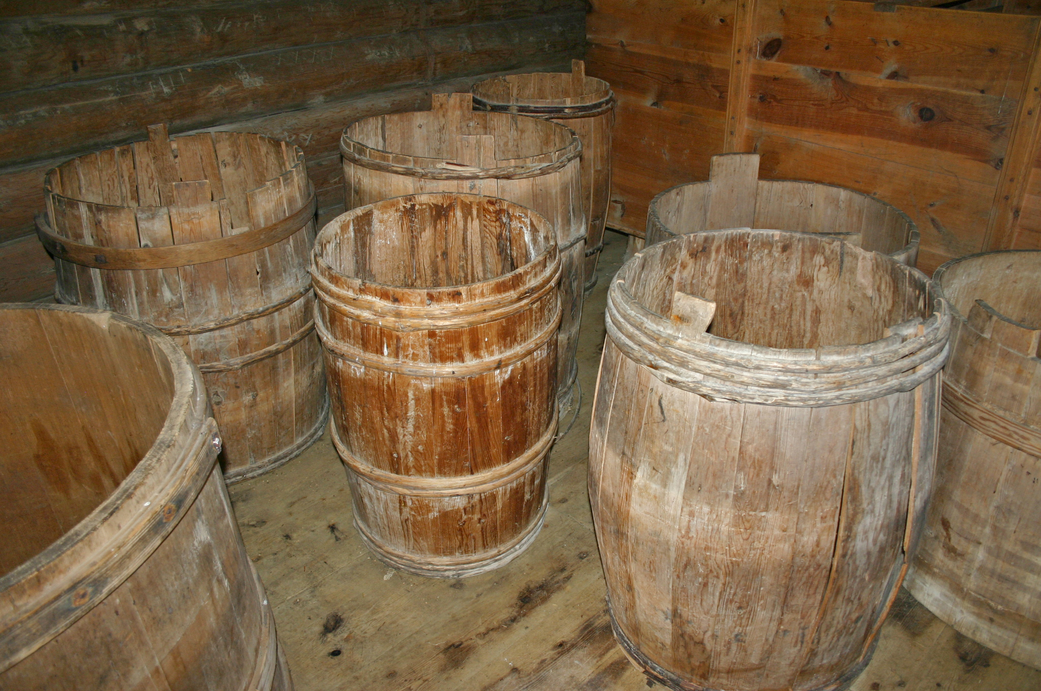 Food barrels